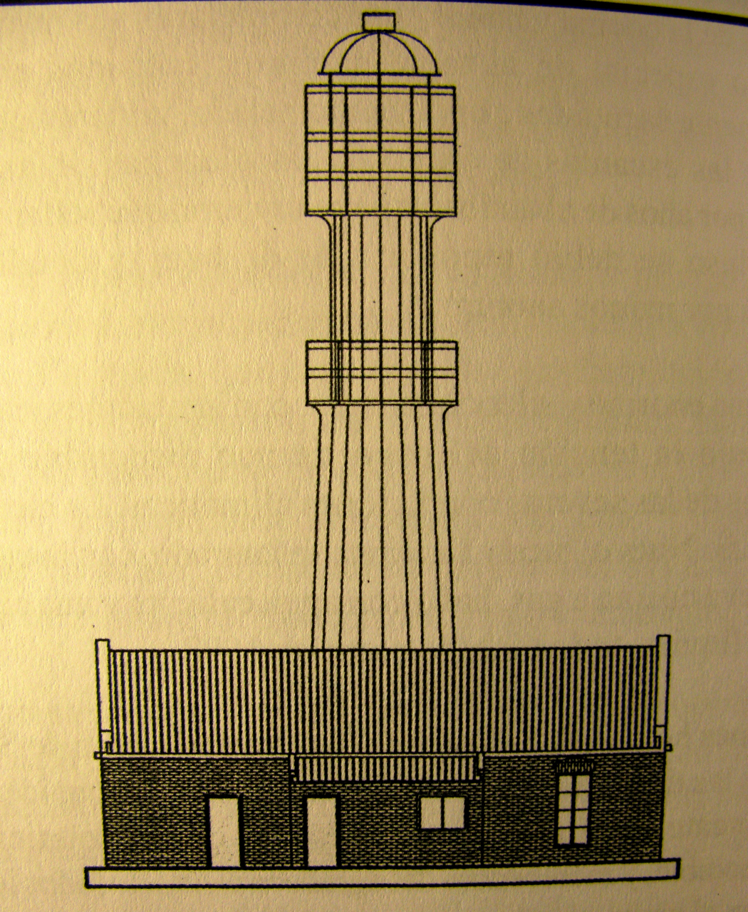 Año Nuevo lighthouse.